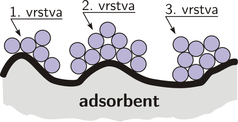 BET isotherm, adsorption